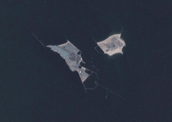 Heligoland, Landsat-7-Aufnahme der NASA aus World Wind